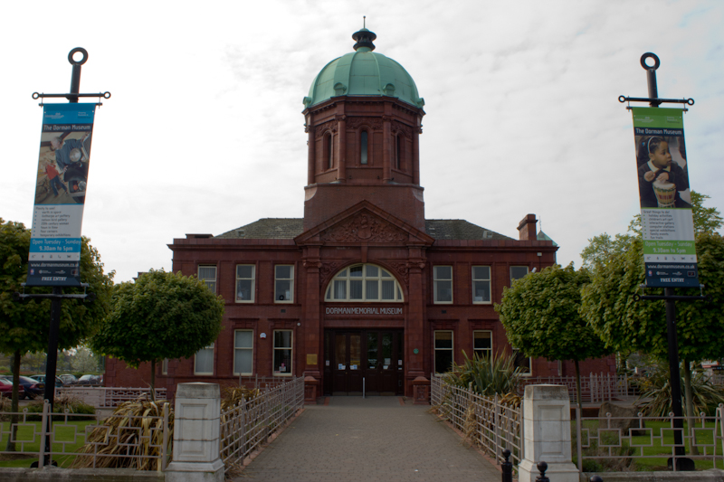 Dorman Memorial Museum, taken in 2011.